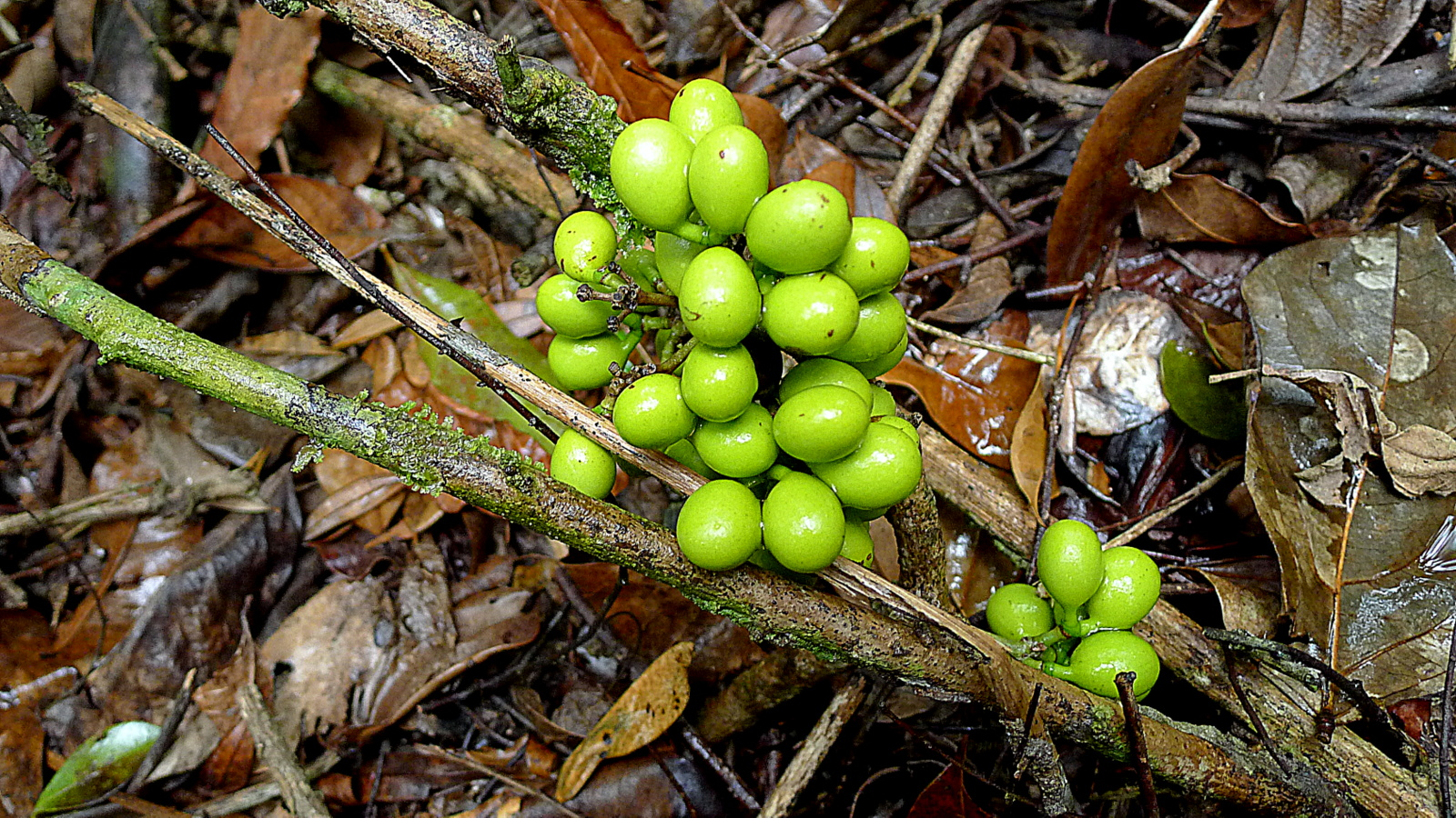 Chondrodendron platiphyllum (A. St.-Hil.) Miers.